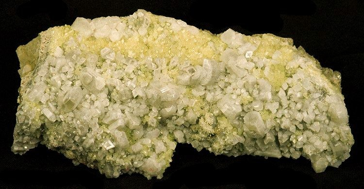 Harmotome, Apophyllite-(KF) Locality: Korsnäs, Vaasa, Länsi-Suomen Lääni, Finland (Locality at ) Size: 11.6 x 5.4 x 2.4 cm. A striking cabinet combination specimen from an uncommon locality - Korsnas, Finland. Gemmy, greenish-yellow apophyllite crystals are richly concentrated or are scattered amongst sharp, pearlescent, grayish-white harmotome crystals. The harmotome crystals reach 1.0 cm. Yellow apophyllite is rare, worldwide. Ex. John Ydren Collection.